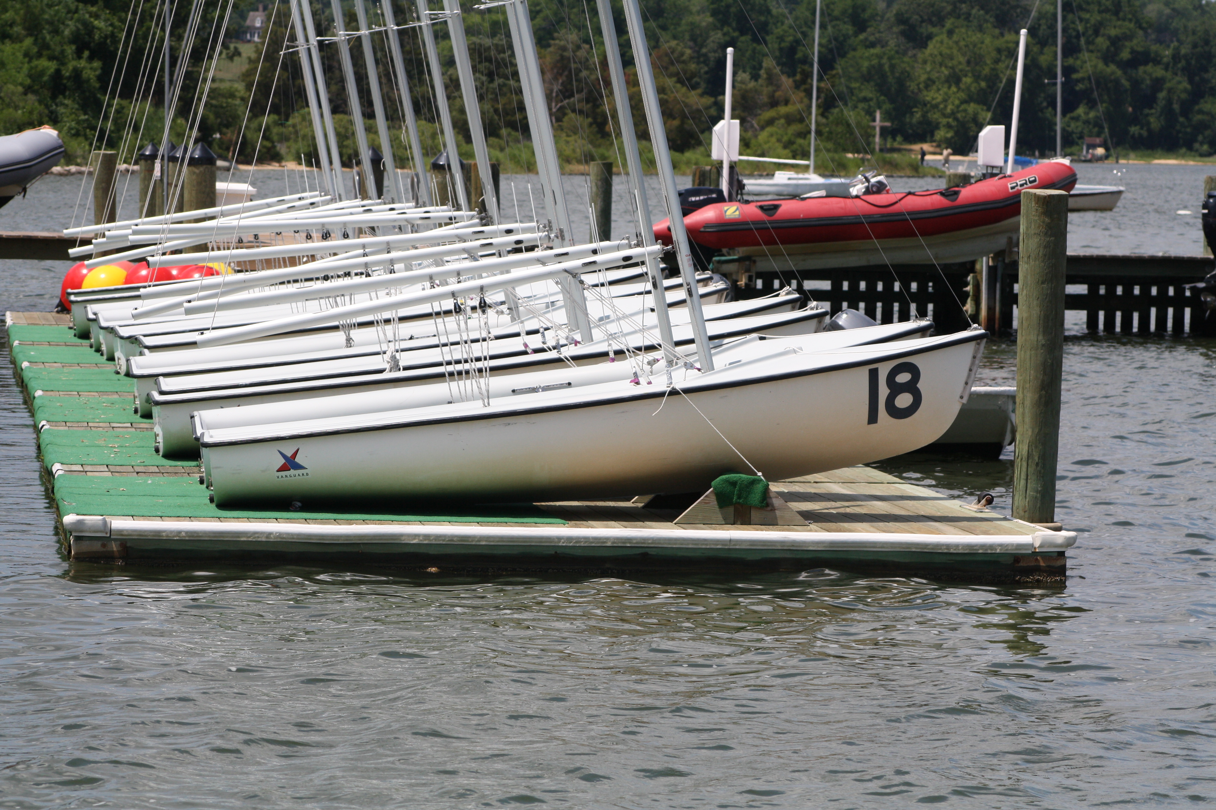 St. Mary's College of Maryland, sailing team dock. Photo, Elvert Barnes, 14 June 2011.